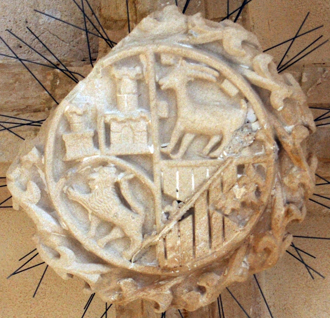 Enríquez de Cabrera coat of arms in Modica, Sicily